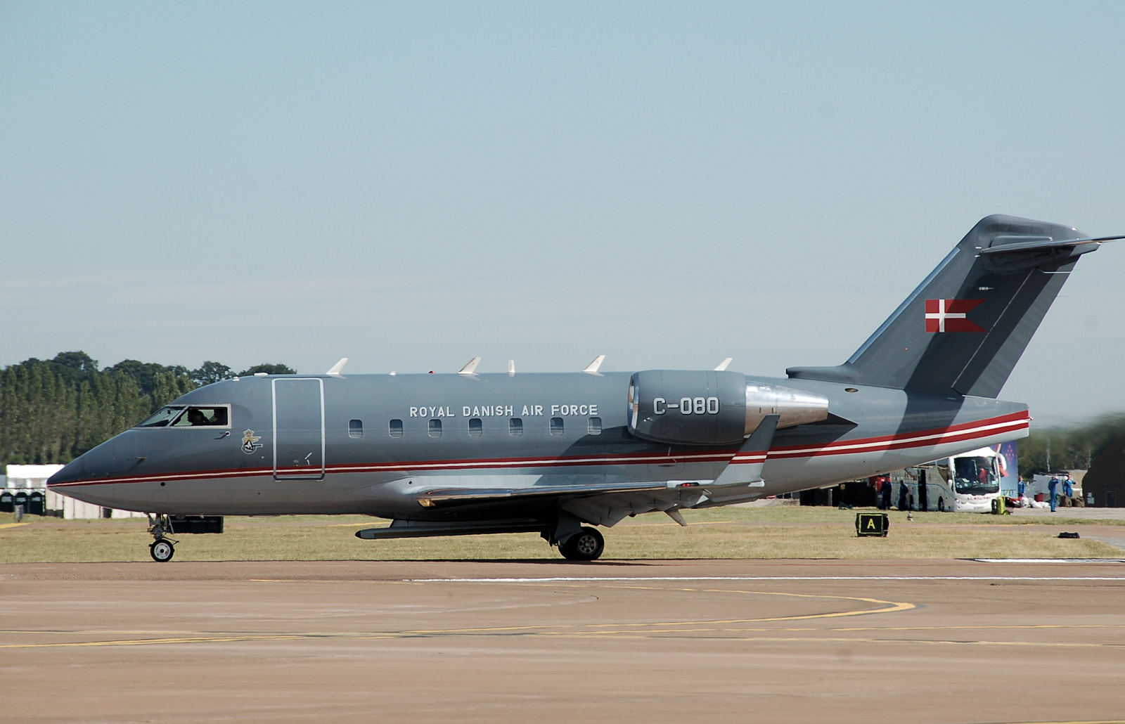 Royal Danish Air Force Bombardier Challenger 604 waiting for permission to takeoff at the 2010 Royal International Air Tattoo, Fairford, Gloucestershire, England.